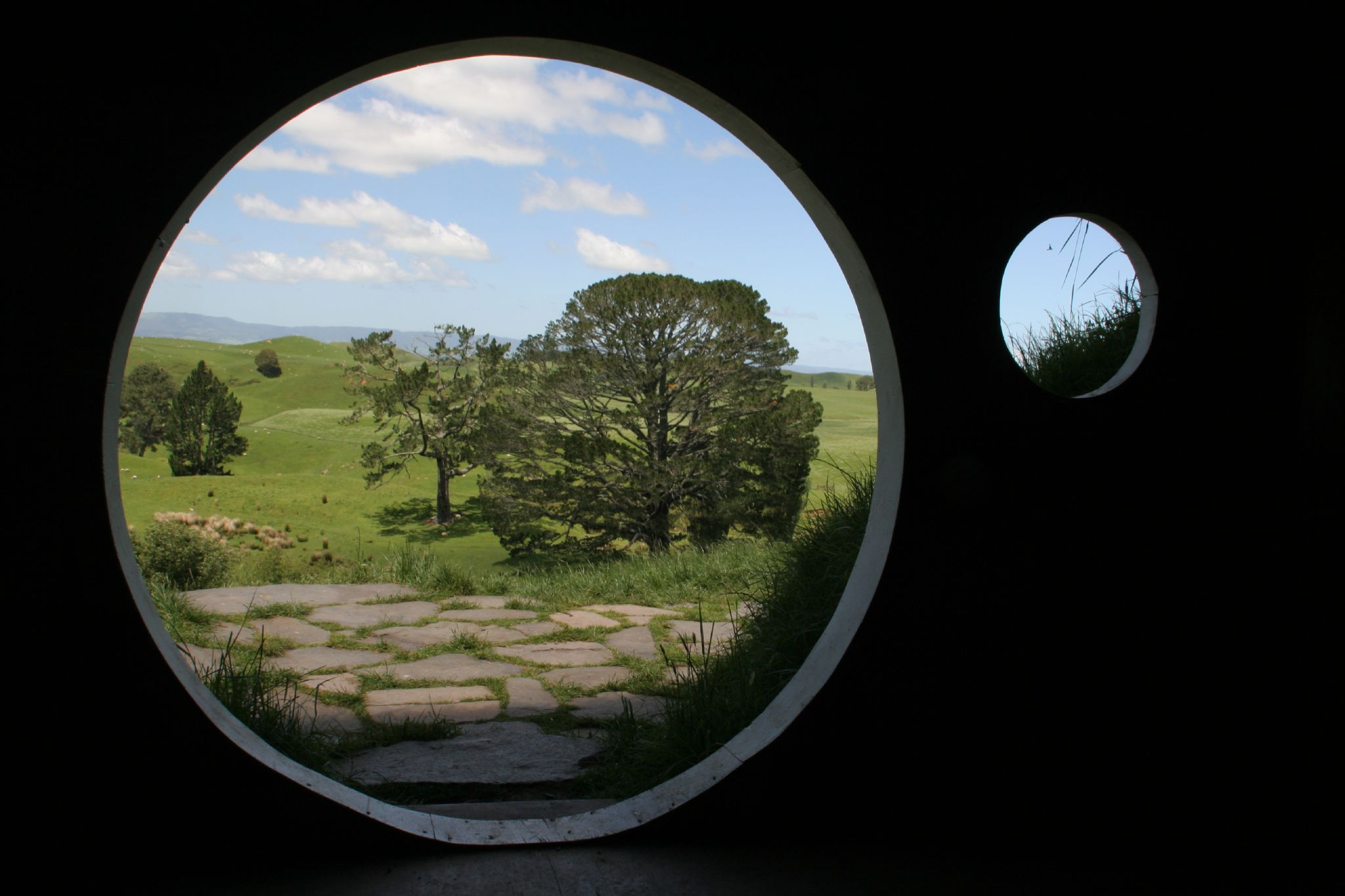 From inside on of the hobbit holes, on location at the Hobbiton set, as used in the Lord of the Rings films.IMG_3297